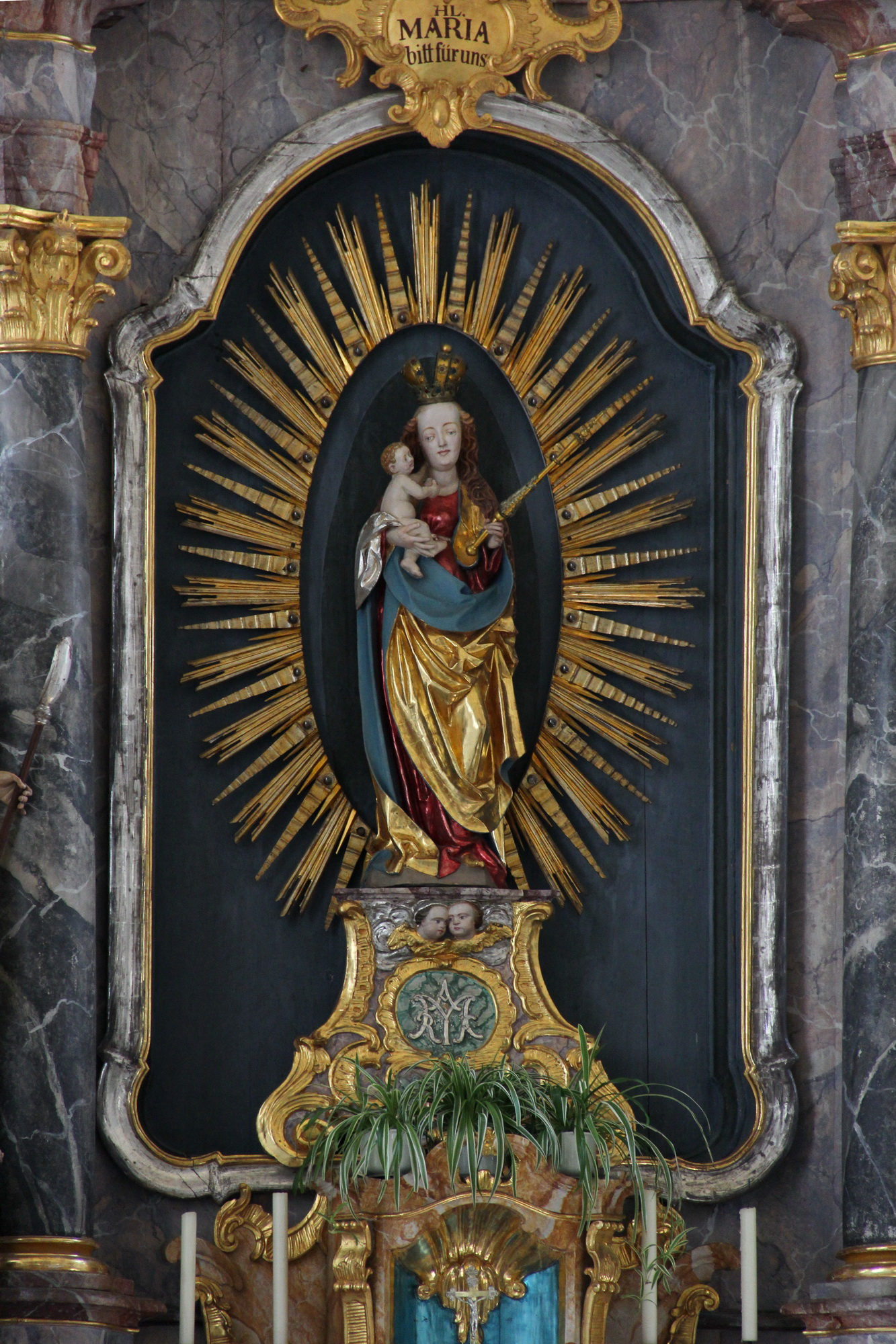 Saint Mary Native nameFrauenkircheLocationBeilngries, Upper Bavaria, GermanyCoordinates49° 02′ 10.5″ N, 11° 28′ 16.68″ E Authority control : Q19997793 institution QS:P195,Q19997793